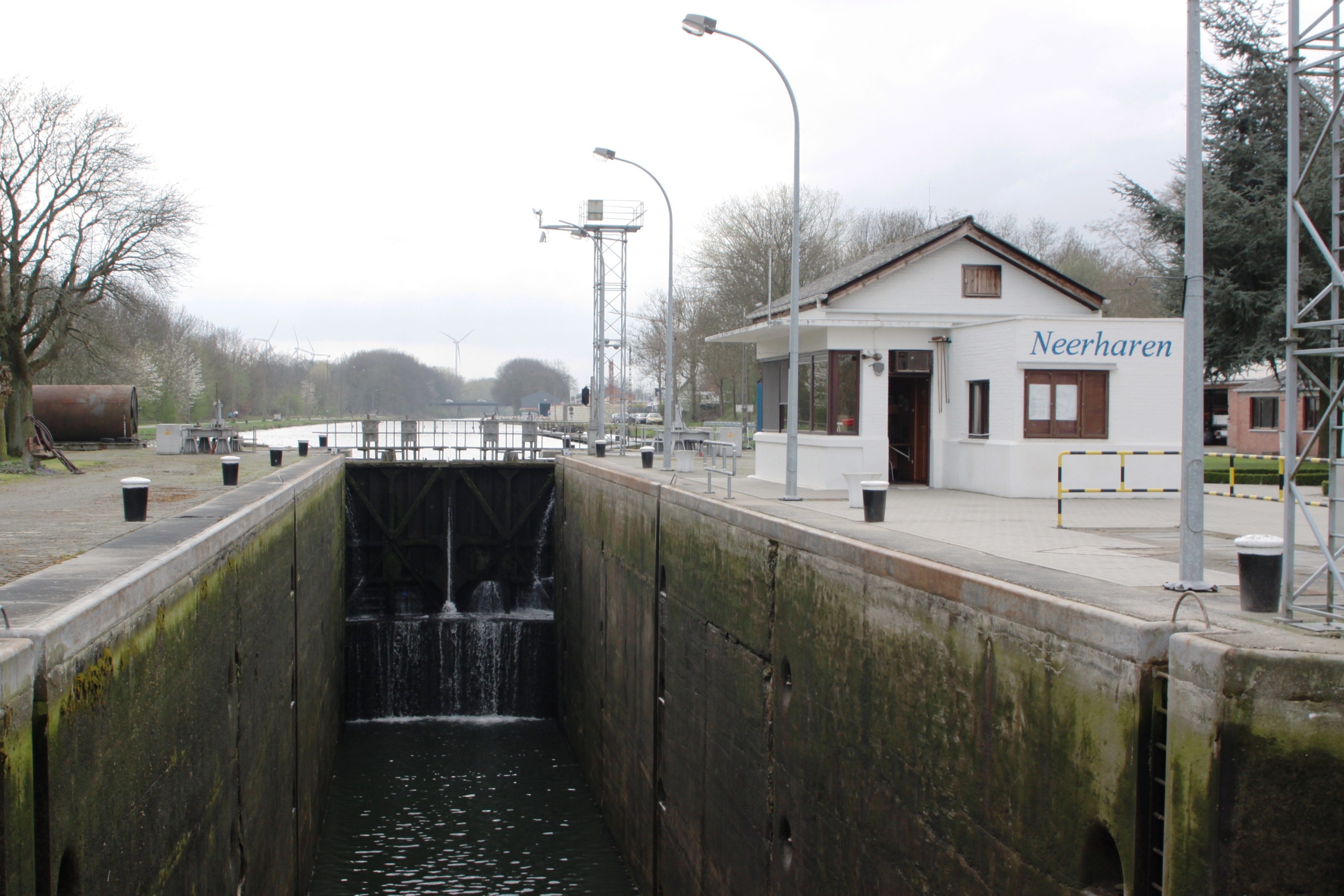 Lock of Neerharen on Canal Briedgen-Neerharen